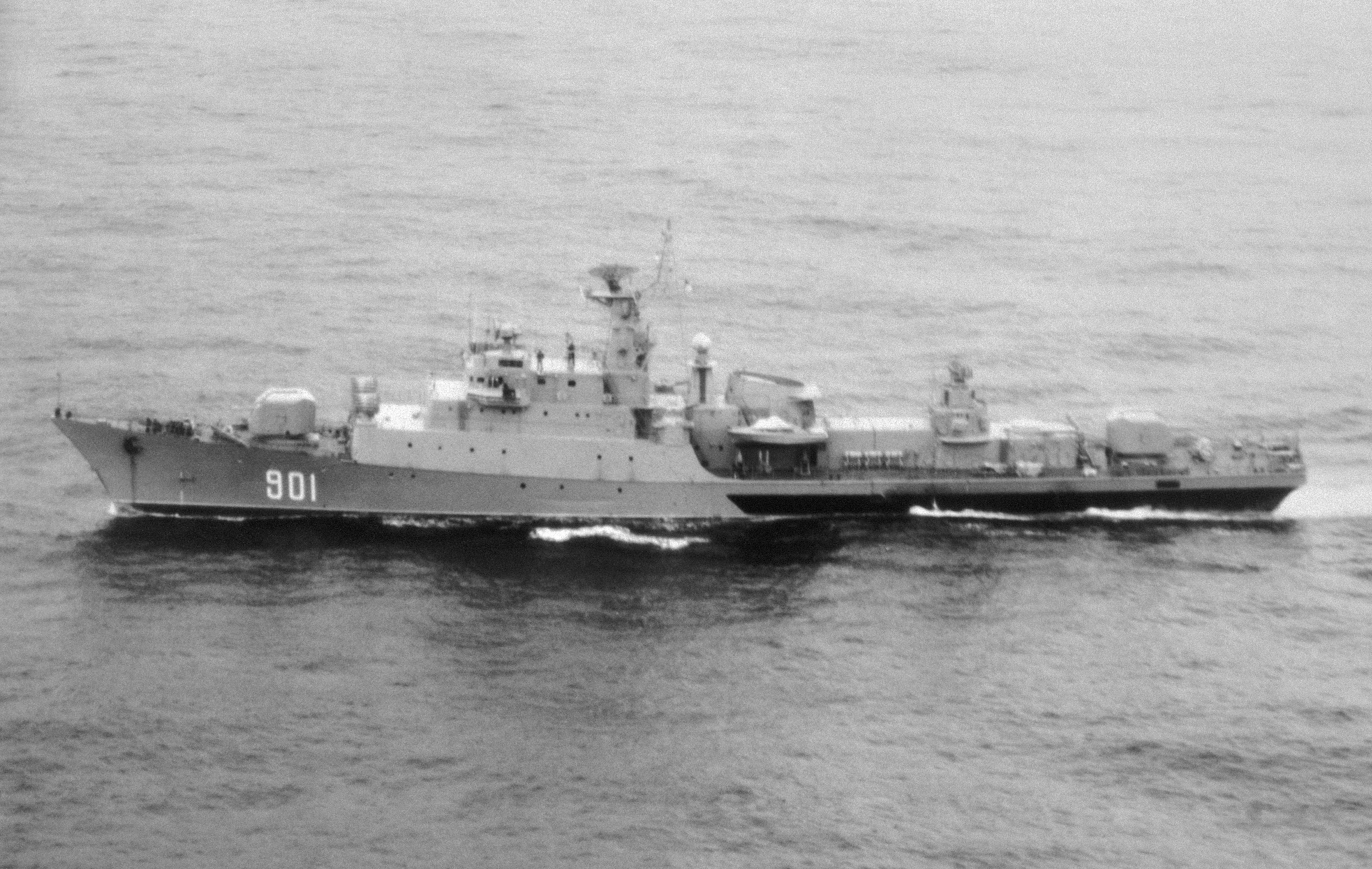 An aerial port beam view of a Algerian Koni Class Frigate MURAT REIS underway.